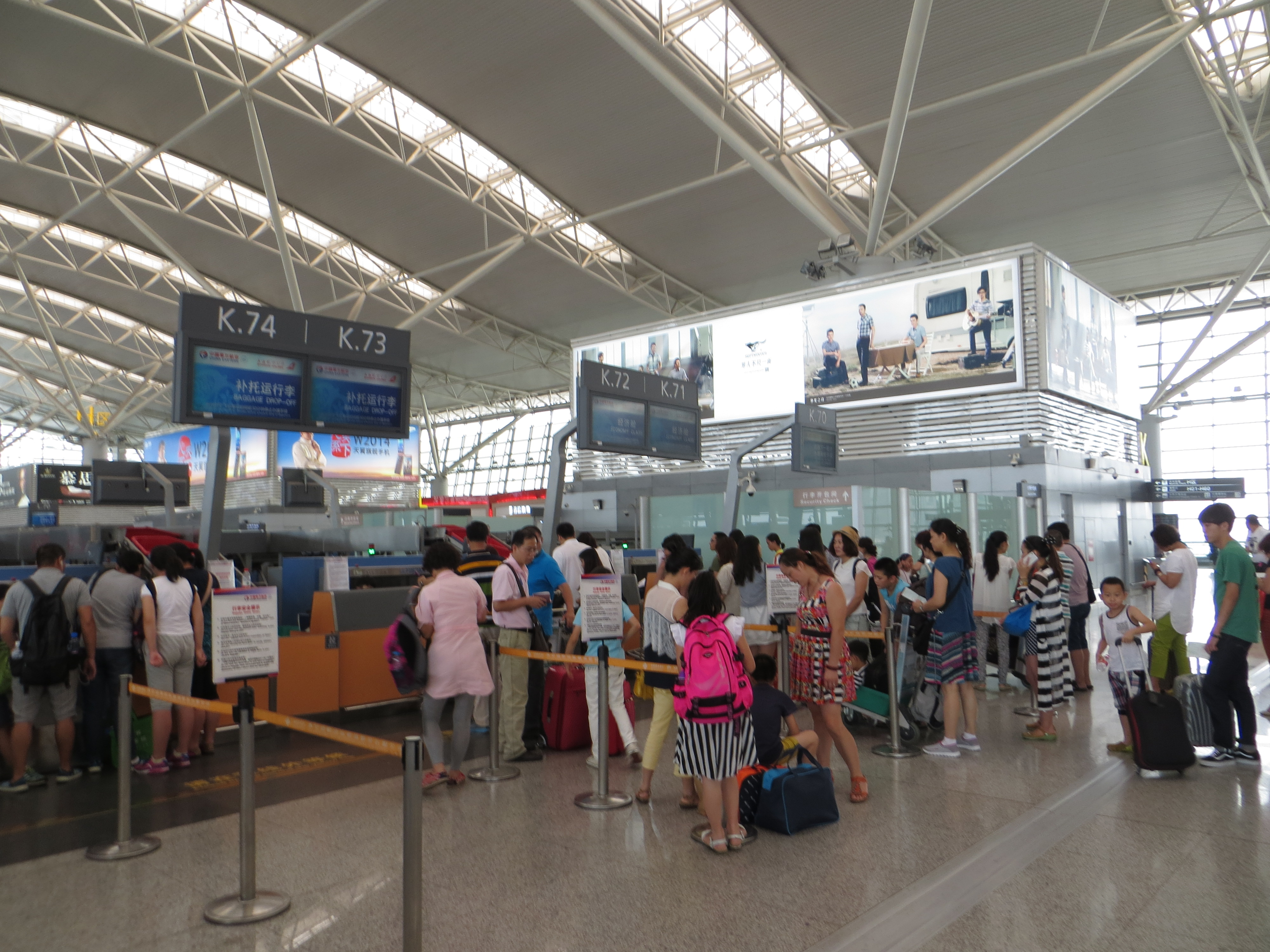 The China Eastern ticketing counters at Xi'an Xianyang Int'l Airport, China.